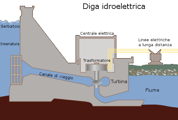 Italian version of File:Hydroelectric dam.png